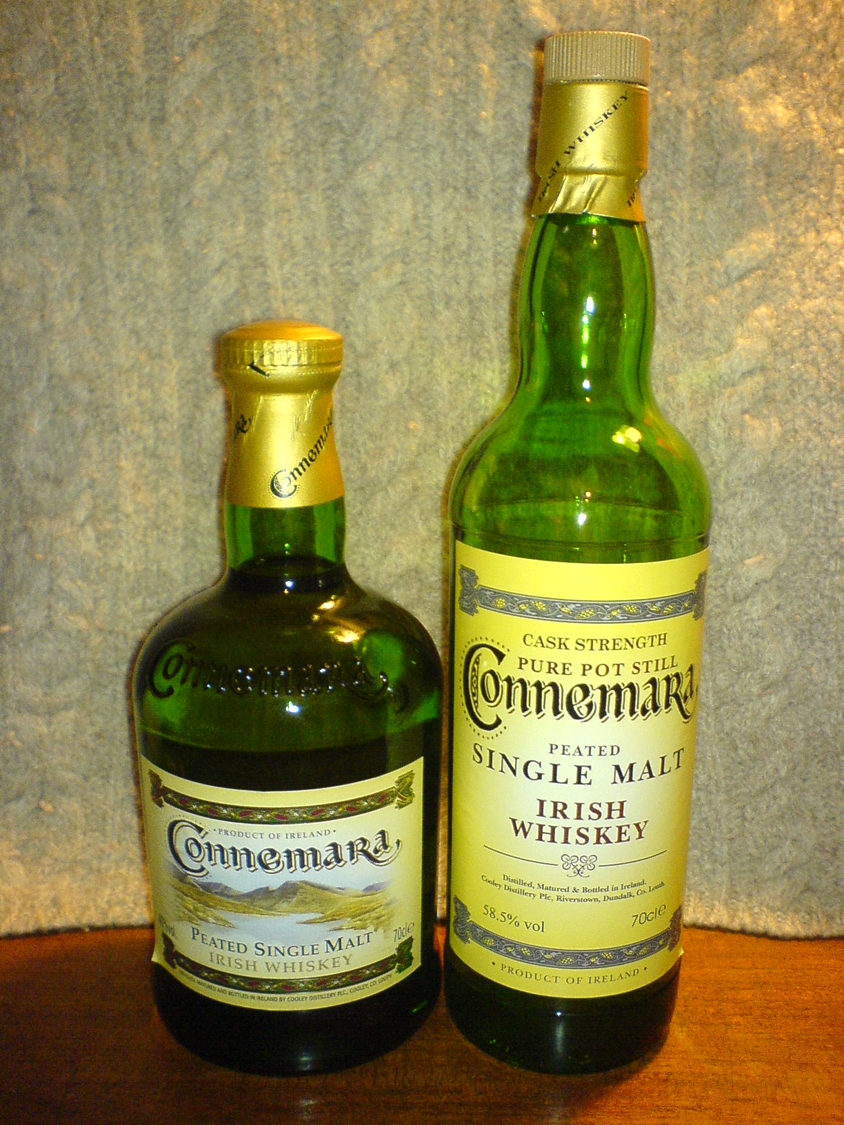 Links: Fles Connemara Peated Single Malt Irish Whiskey, 40%vol. Rechts: Fles Cask Strength Connemara Peated Single Malt Irish Whiskey, 58,8%vol.